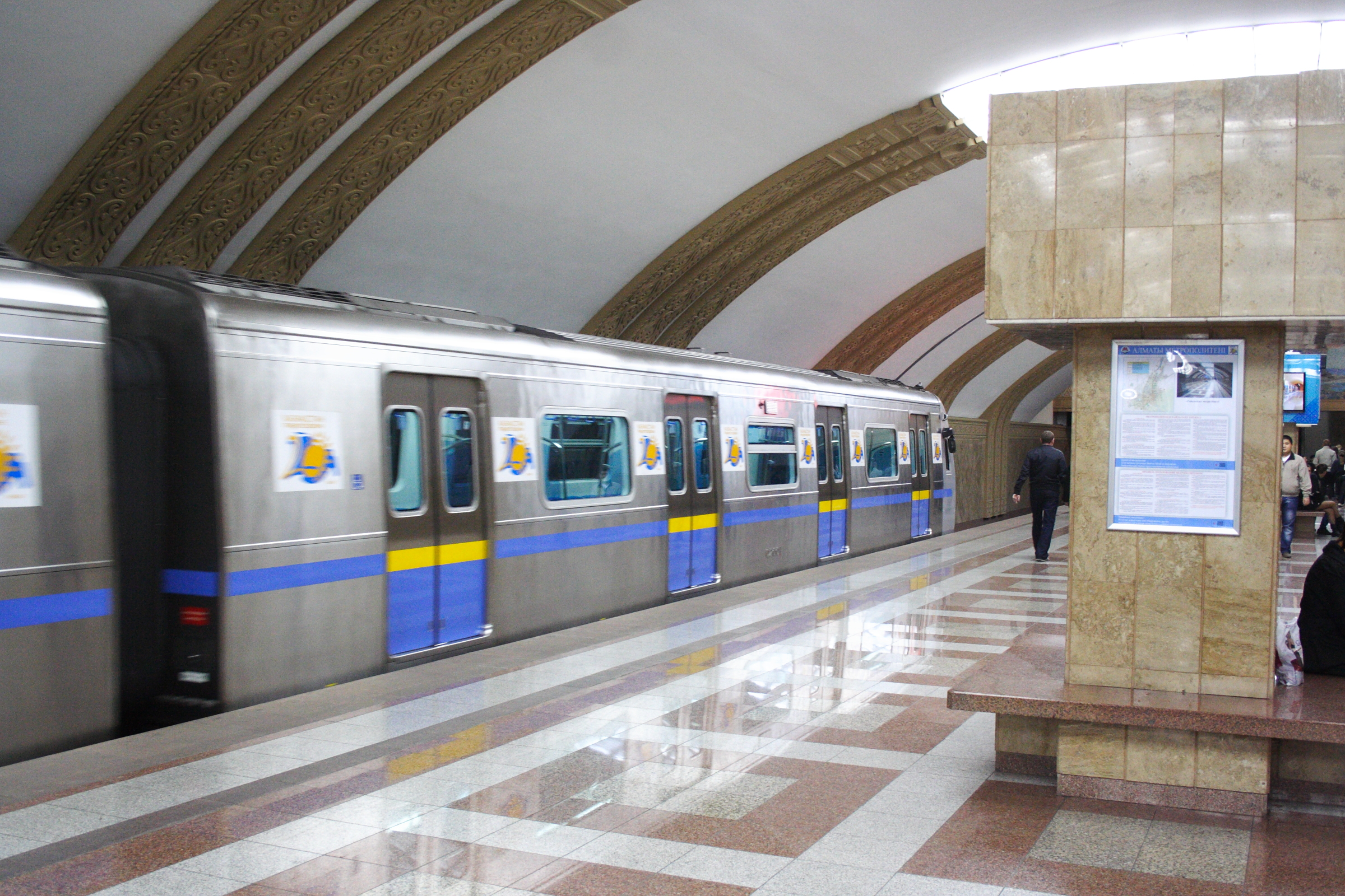 Almaty Metro, Raiymbek batyr Station